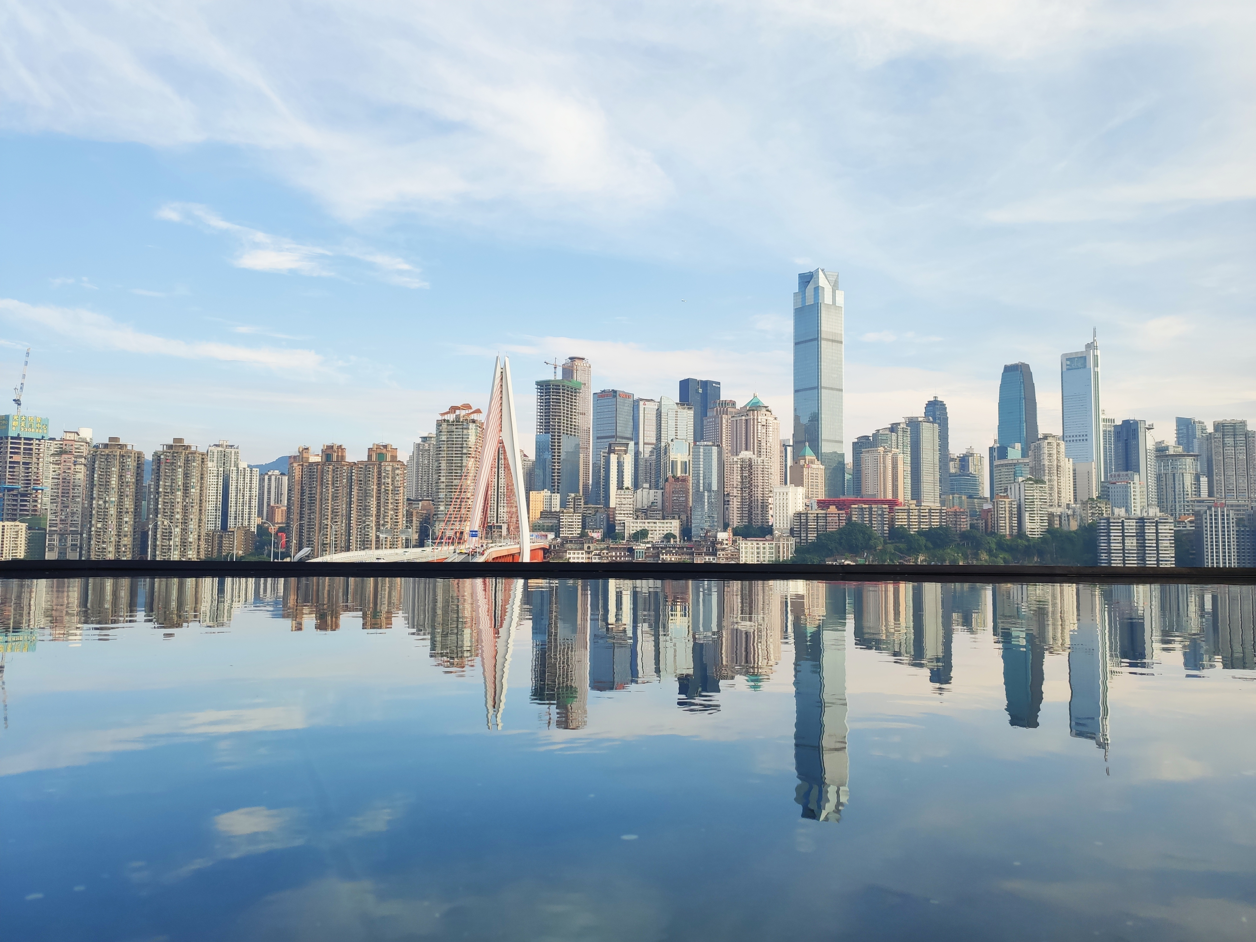 On the bank of Jiangbei District, Jialing River, Chongqing,look-out the Yuzhong District Peninsula .(the bridge in the picture is the Qiansimen Jialing River Bridge)